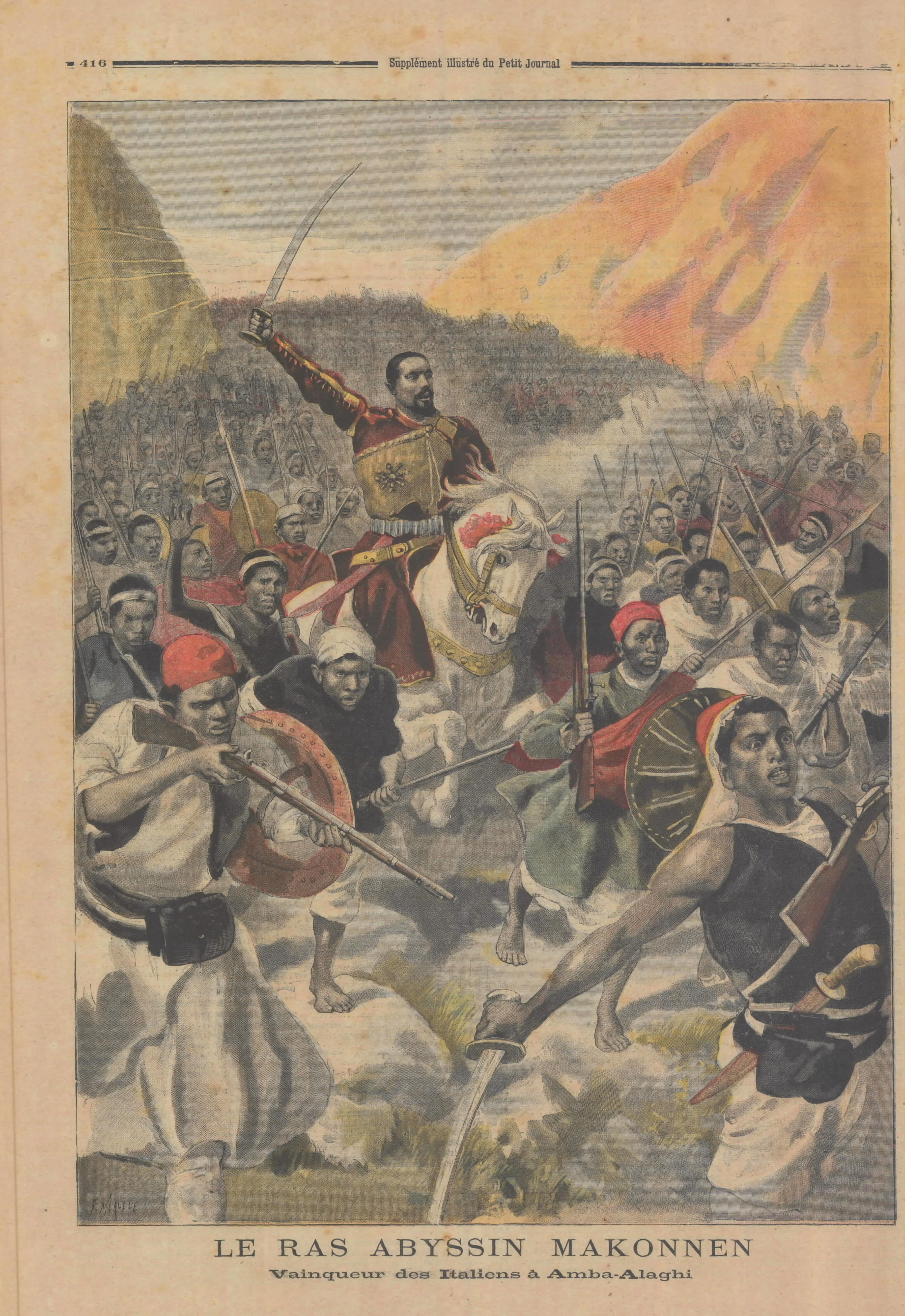 Page from old french newspaper "Le Petit Journal" depicting Ras Mekonnen at the battle of Amba Alage